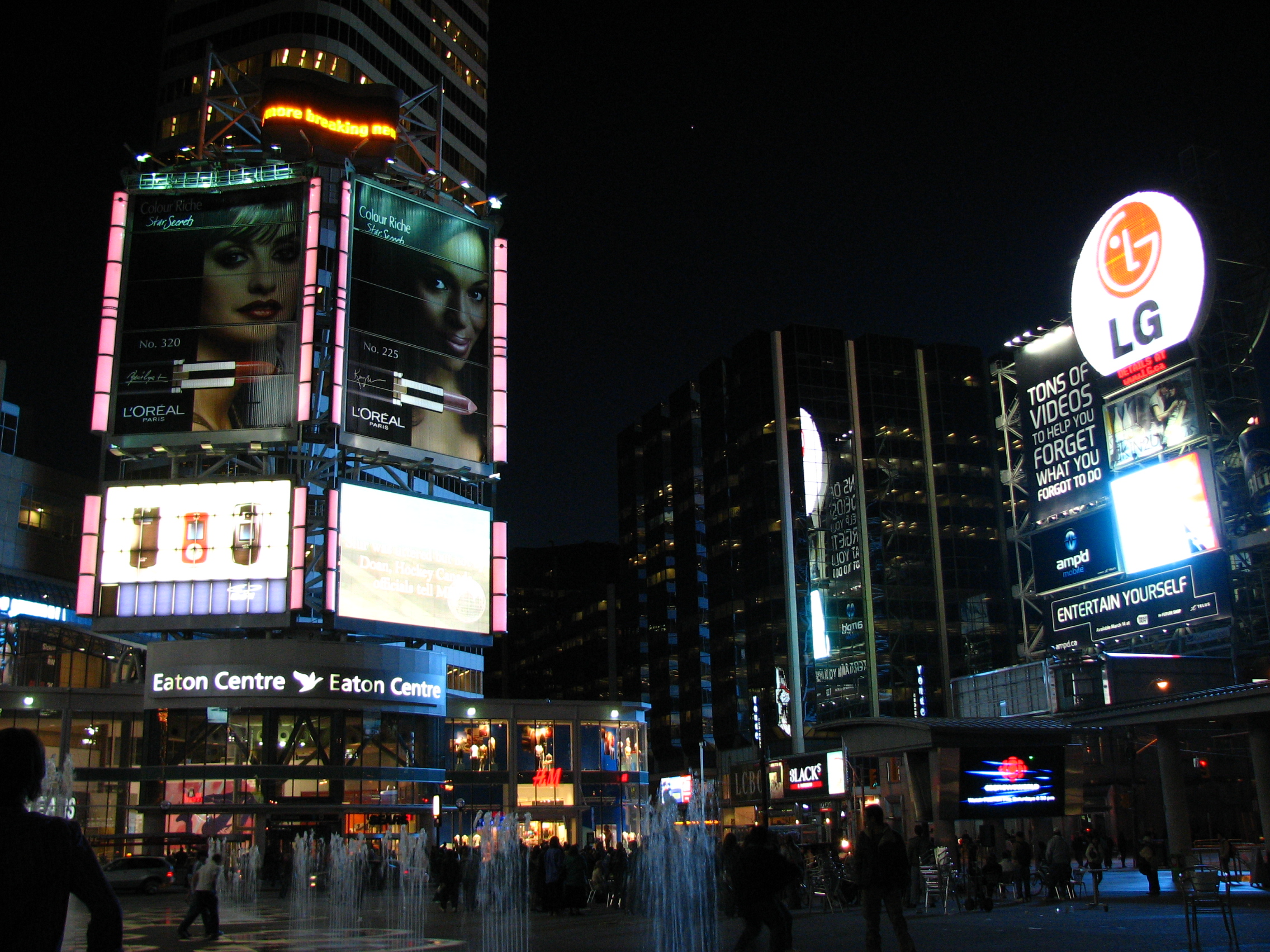 Toronto Yonge and Dundas Square